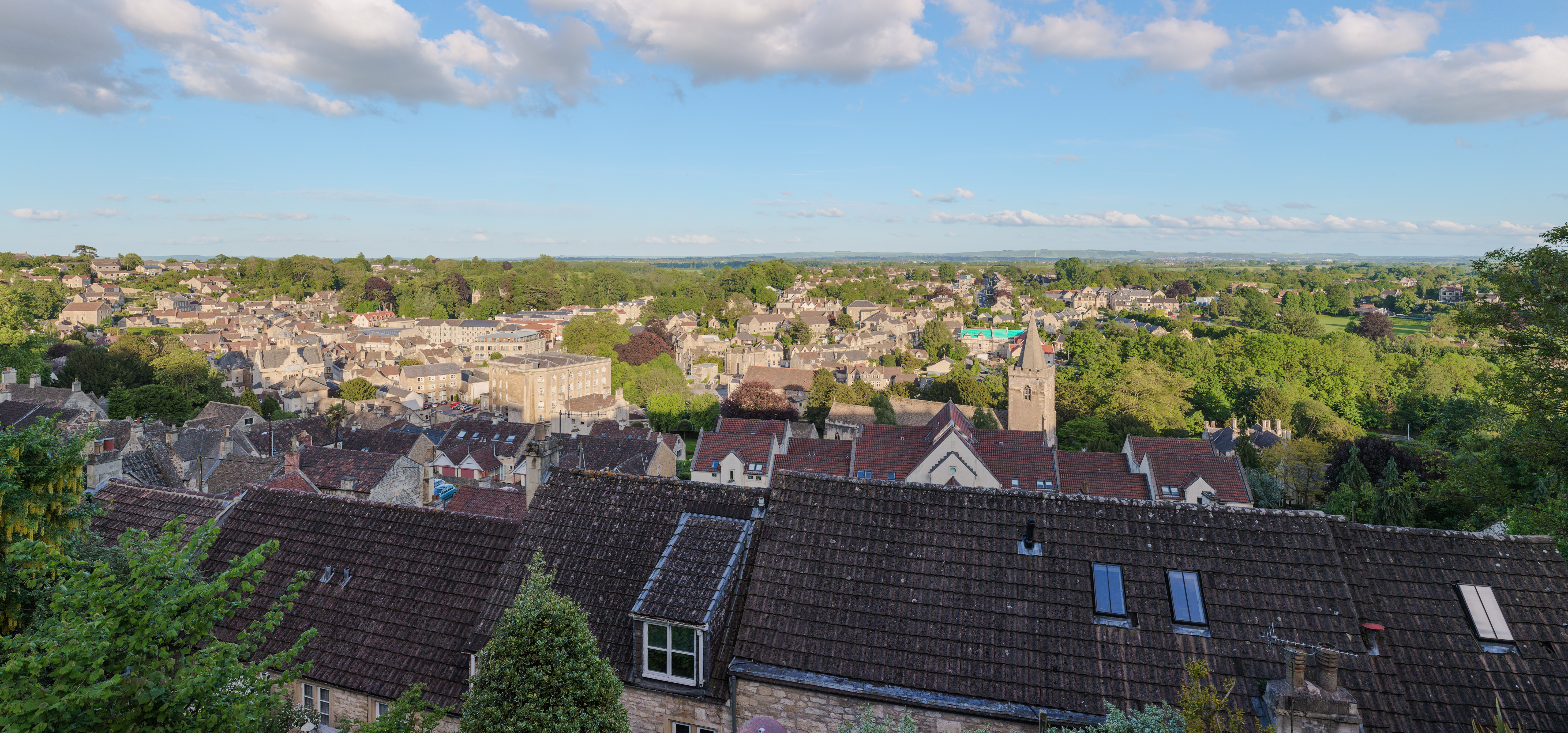 Bradford-on-Avon panorama